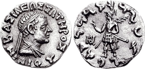 Coin of the Indo-Greek King Nikias